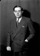 work of a US Agency